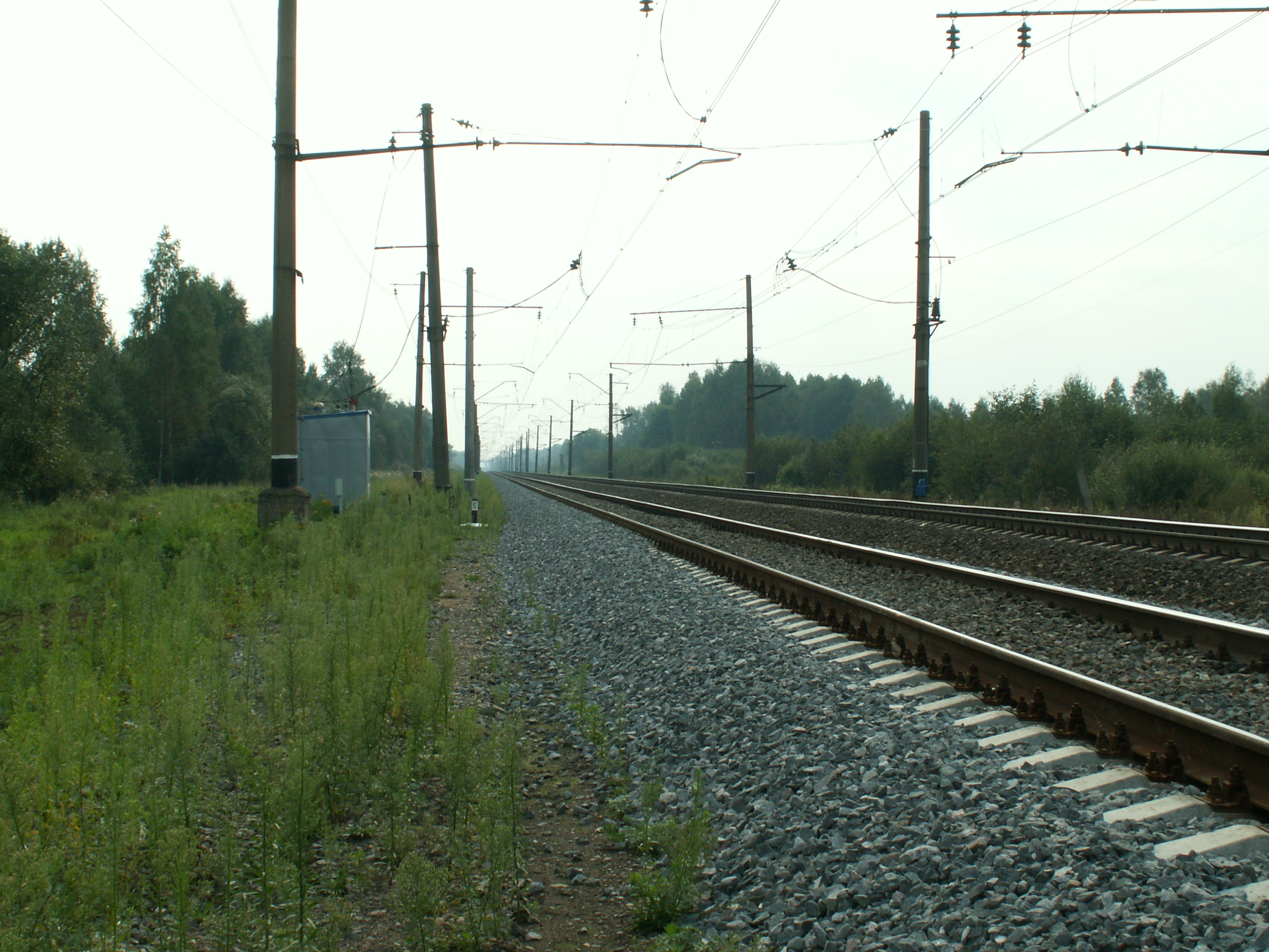 Place where Khozhayevo platform was. Taken from the same point as Image:Xozhajevo-001.jpg, but in the opposite direction.